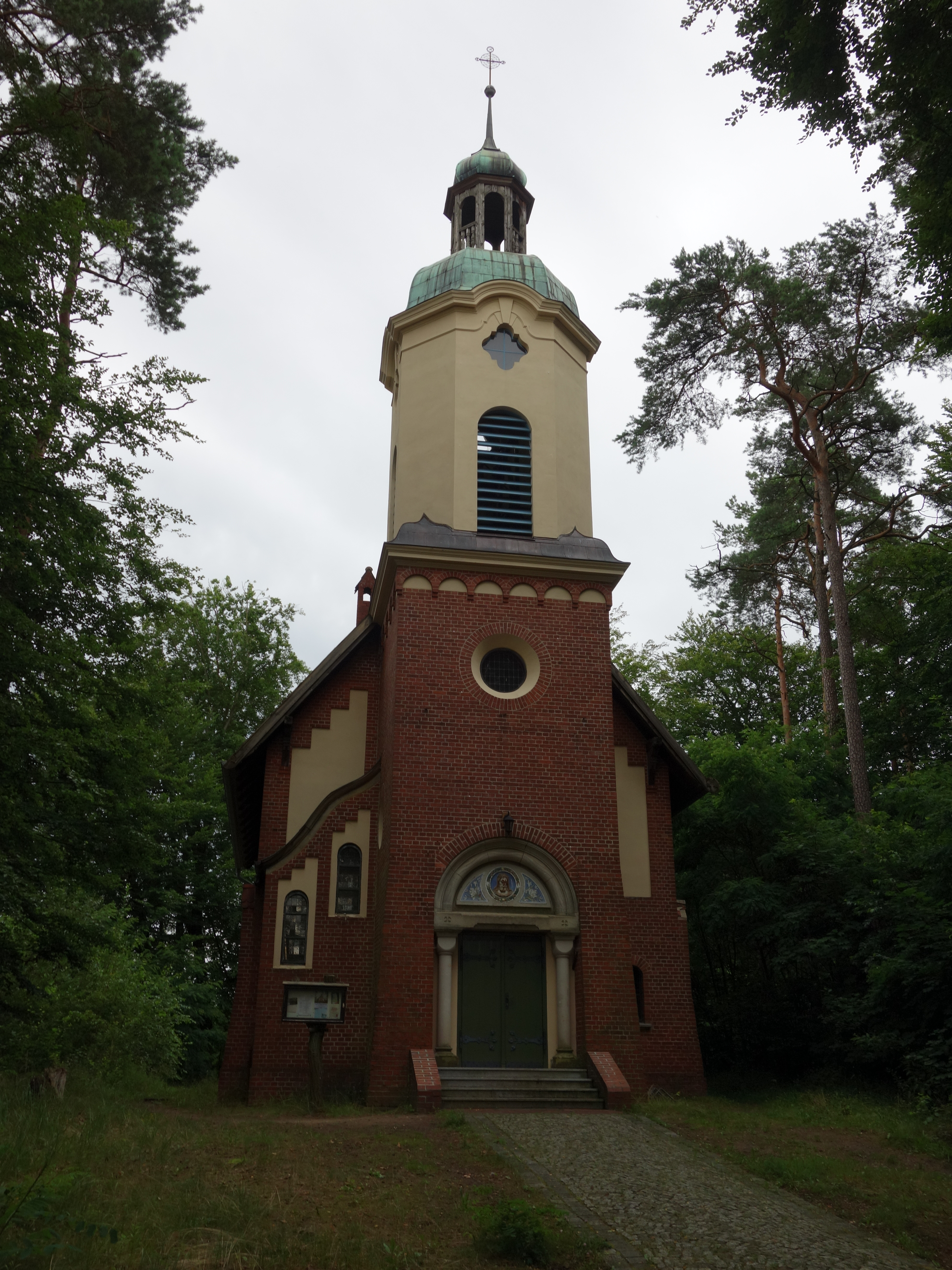 South-western view of St.Helena chapel in Hohenlychen, Lychen municipality, Uckermark district, Brandenburg state, Germany